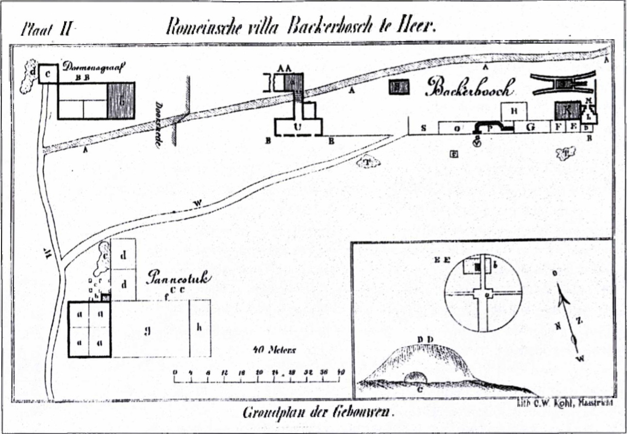 Historic map of the archaeological excavation of the Roman Villa Backerbosch in Cadier en Keer near Maastricht, the Netherlands.